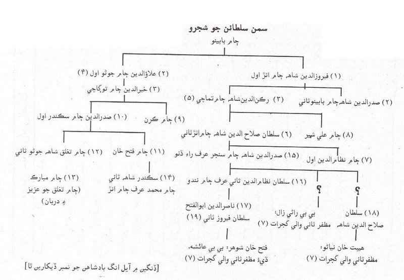 family tree of Samma kings